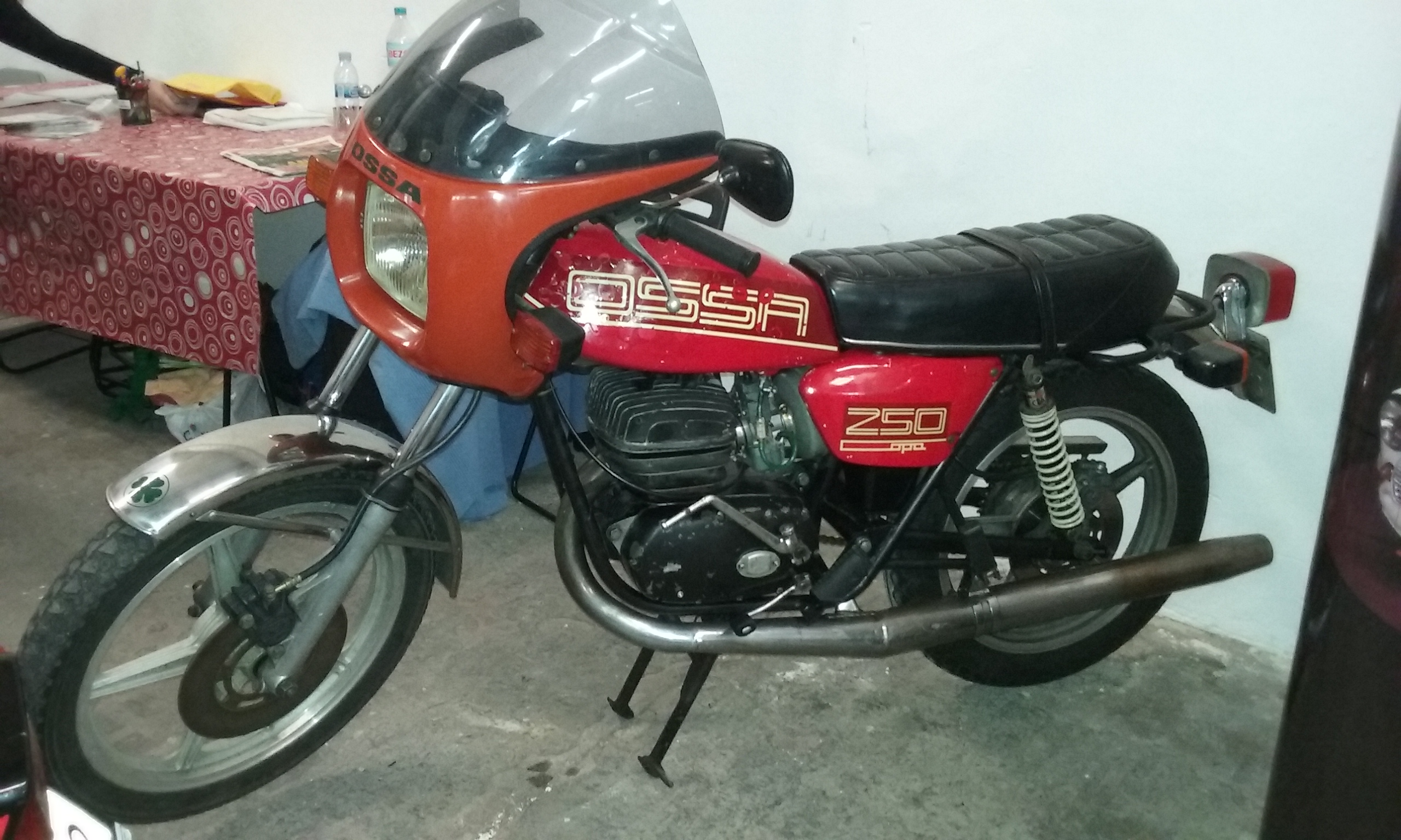 OSSA 250 Copa "79", 1979